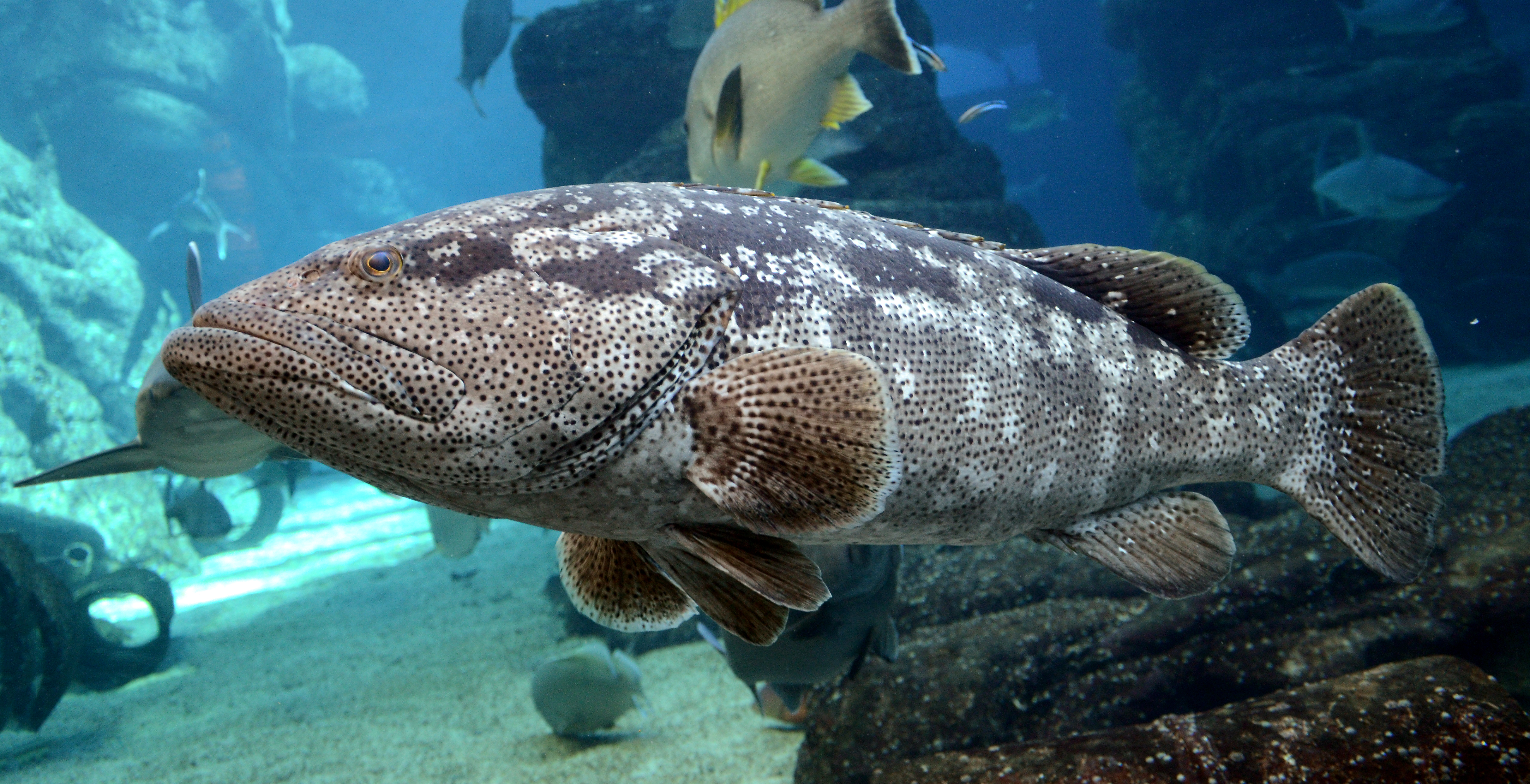 A Malabar rockcod (Epinephelus malabaricus) in UShaka Sea World